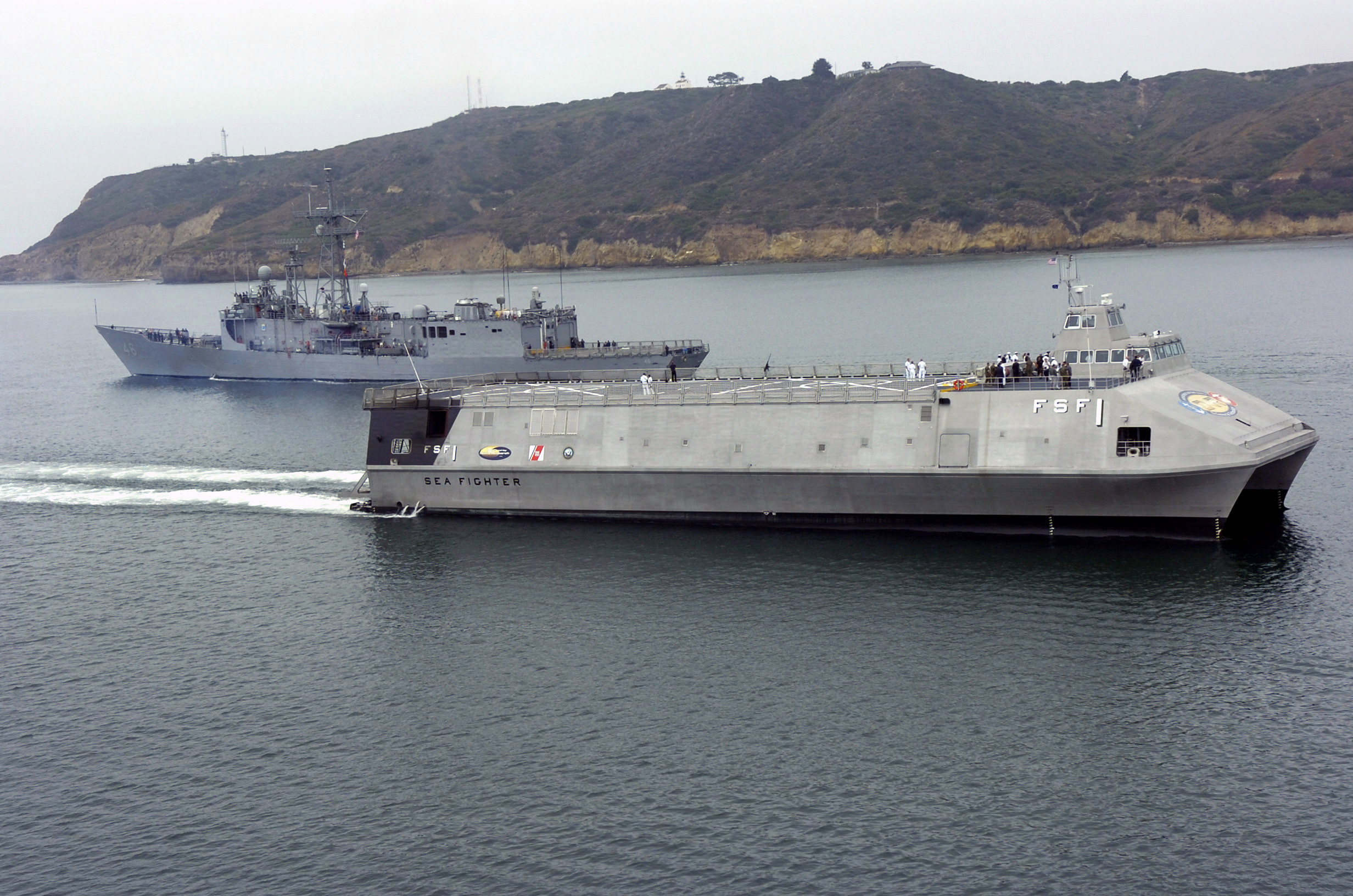 The US Navy (USN) Littoral Surface Craft-Experimental (LSC(X)), developed by the Office of Naval Research and christened SEA FIGHTER (FSF-1), passes the USN Oliver Hazard Perry Class Frigate USS RENTZ (FFG 46) as she arrives at her new homeport at San Diego, California (CA). The high-speed aluminum catamaran will test a variety of technologies that will allow the Navy to operate in littoral waters. With a base crew of 26 people, Sea Fighter will also provide a platform for the evaluation of minimum manning concepts on future naval surface ships. Location: SAN DIEGO, CALIFORNIA (CA) UNITED STATES OF AMERICA (USA)